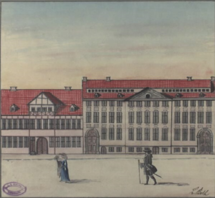 Stens Gård i klareboderne, nu Gyldendalske Boghandel. J. Rach et Eegberg, 1749